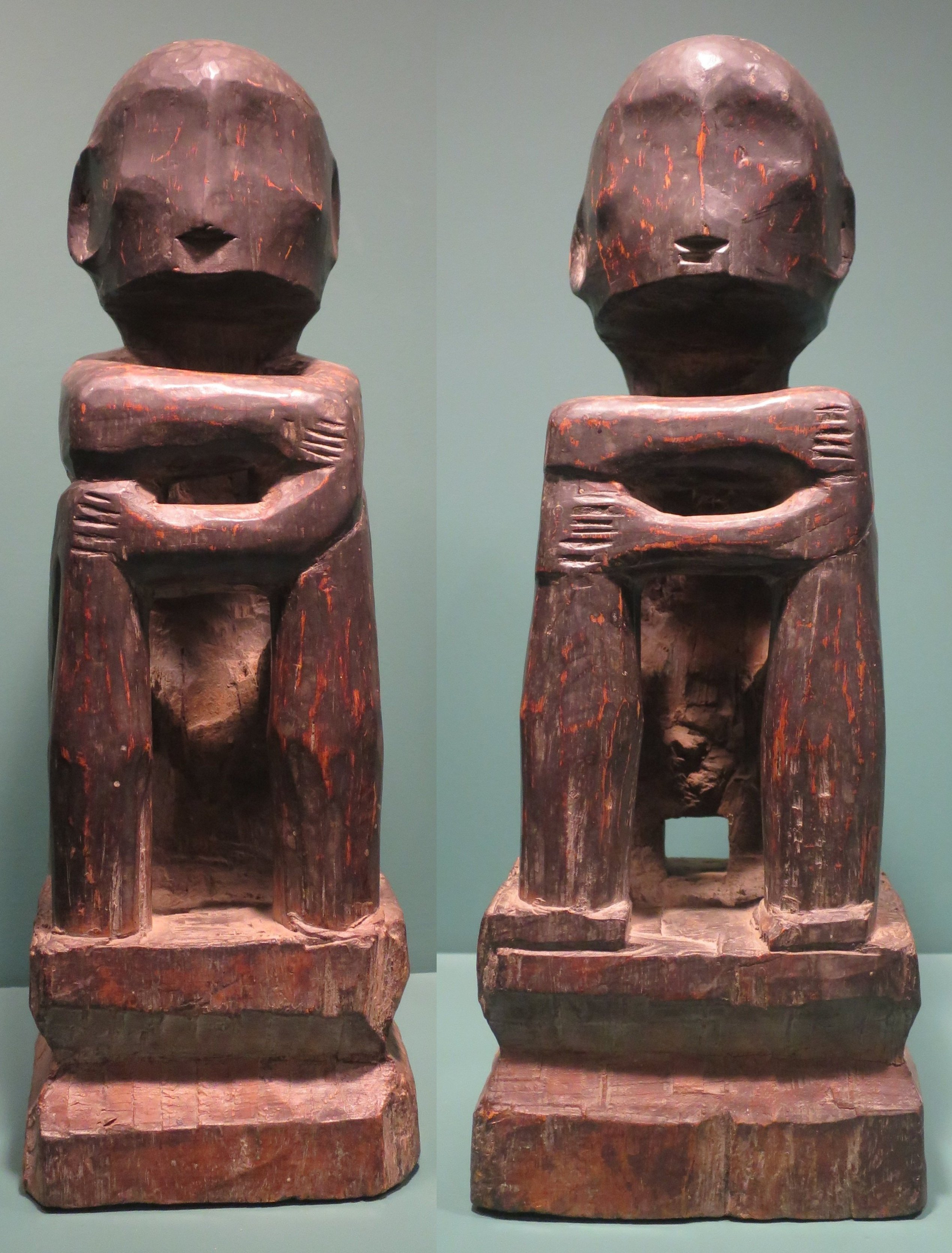 Seated Bulul, rice granary guardian deities from Ifugao in northern Philipines, narra wood with traces of pig's blood, Honolulu Museum of Art accessions 9213.1, 9213.2